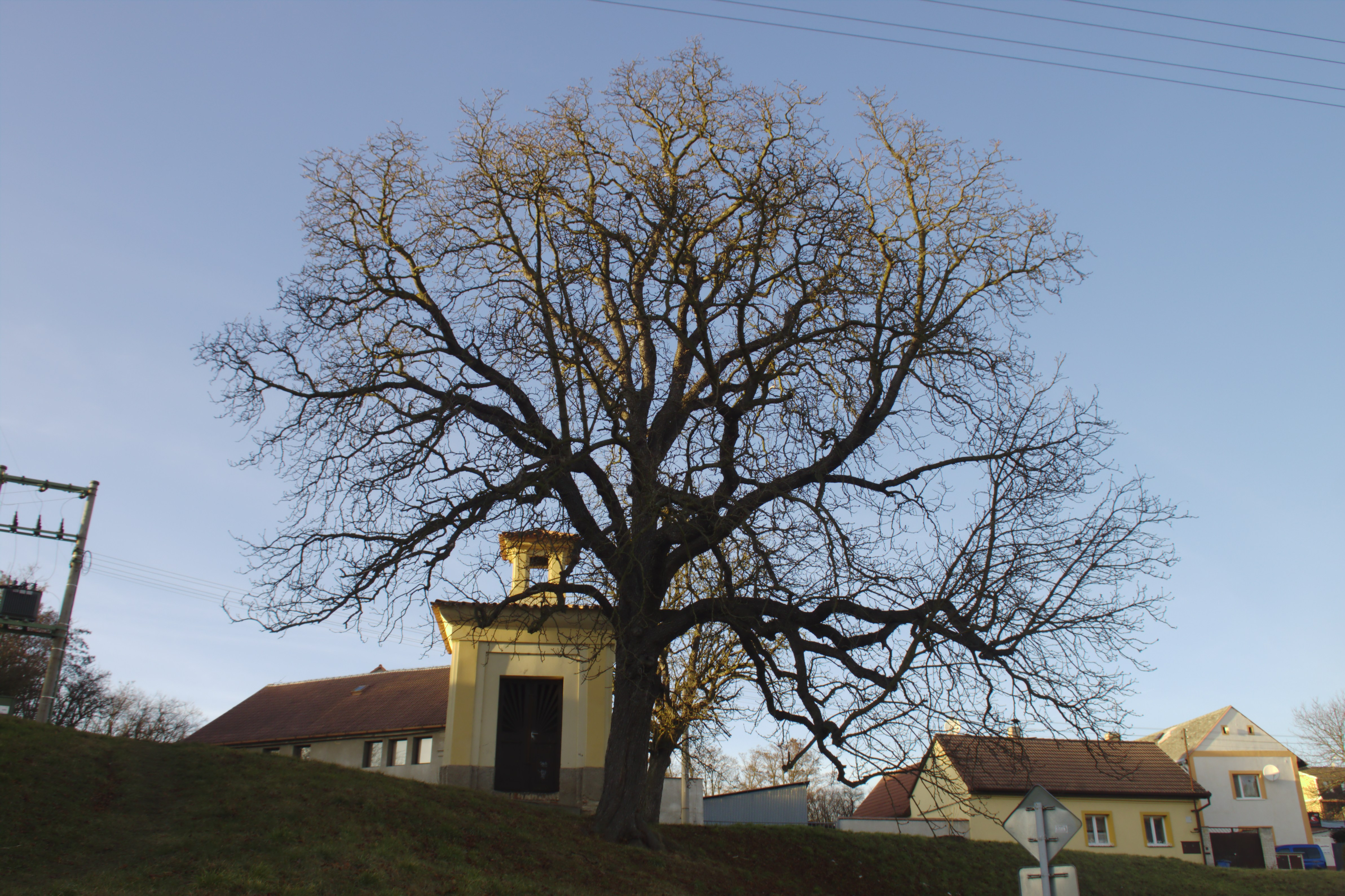 A chapel in Kvíček on southern edge of Slaný, Central Bohemian Region, CZ